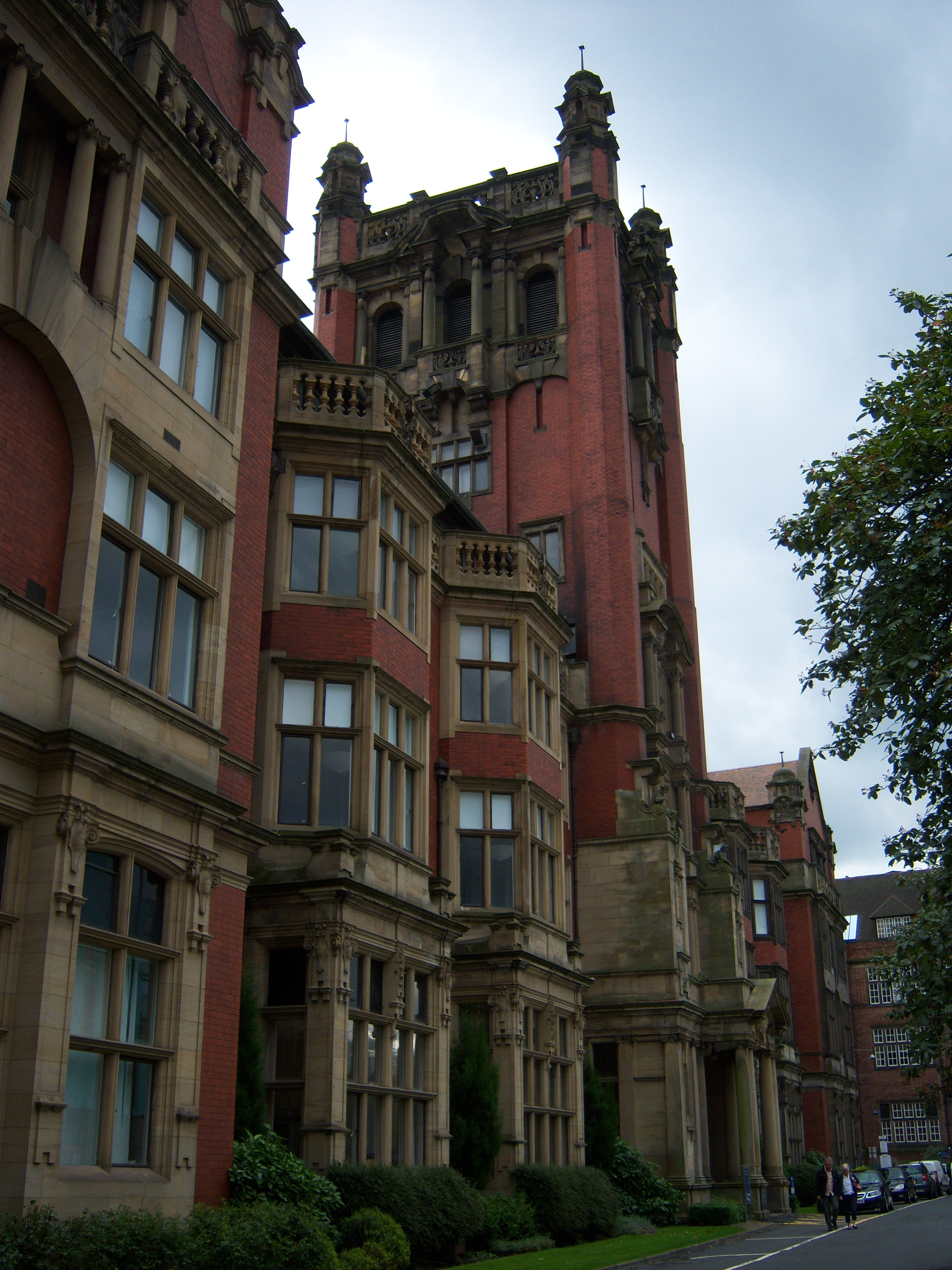 Armstrong Building, Newcastle University. West facade.